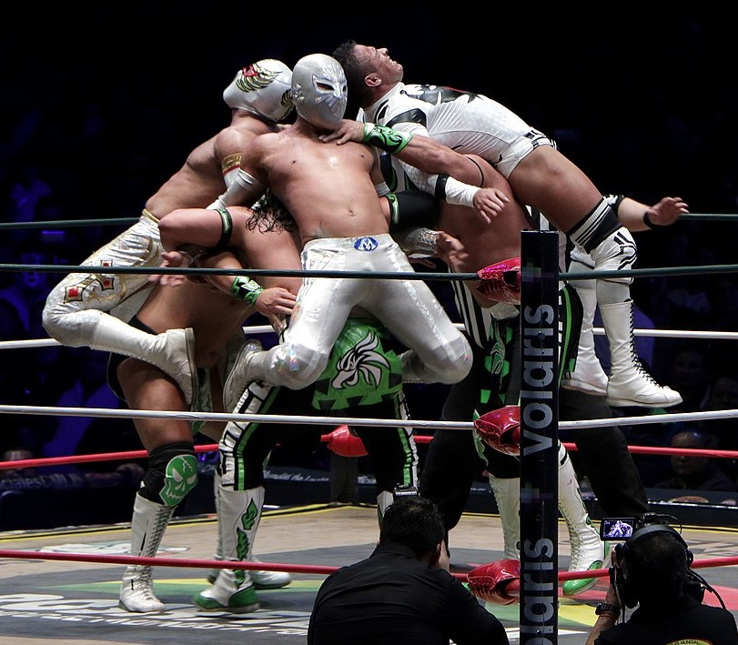 Viernes 30 de noviembre de 2018Arena México, ceremonia de develación de la placa conmemorativa por el reciente decreto de la Lucha Libre como Patrimonio Cultural Intangible de la Ciudad de México, estuvieron presentes autoridades del Consejo Mundial de Lucha Libre, y autoridades del gobierno de la CMDX, entre ellos Gabriela López Torres, coordinadora de Patrimonio Histórico Artístico y Cultural de la Secretaría de Cultura de la CDMX, además de invitados especiales.Fotografía: Tania Victoria/ Secretaría de Cultura CDMX